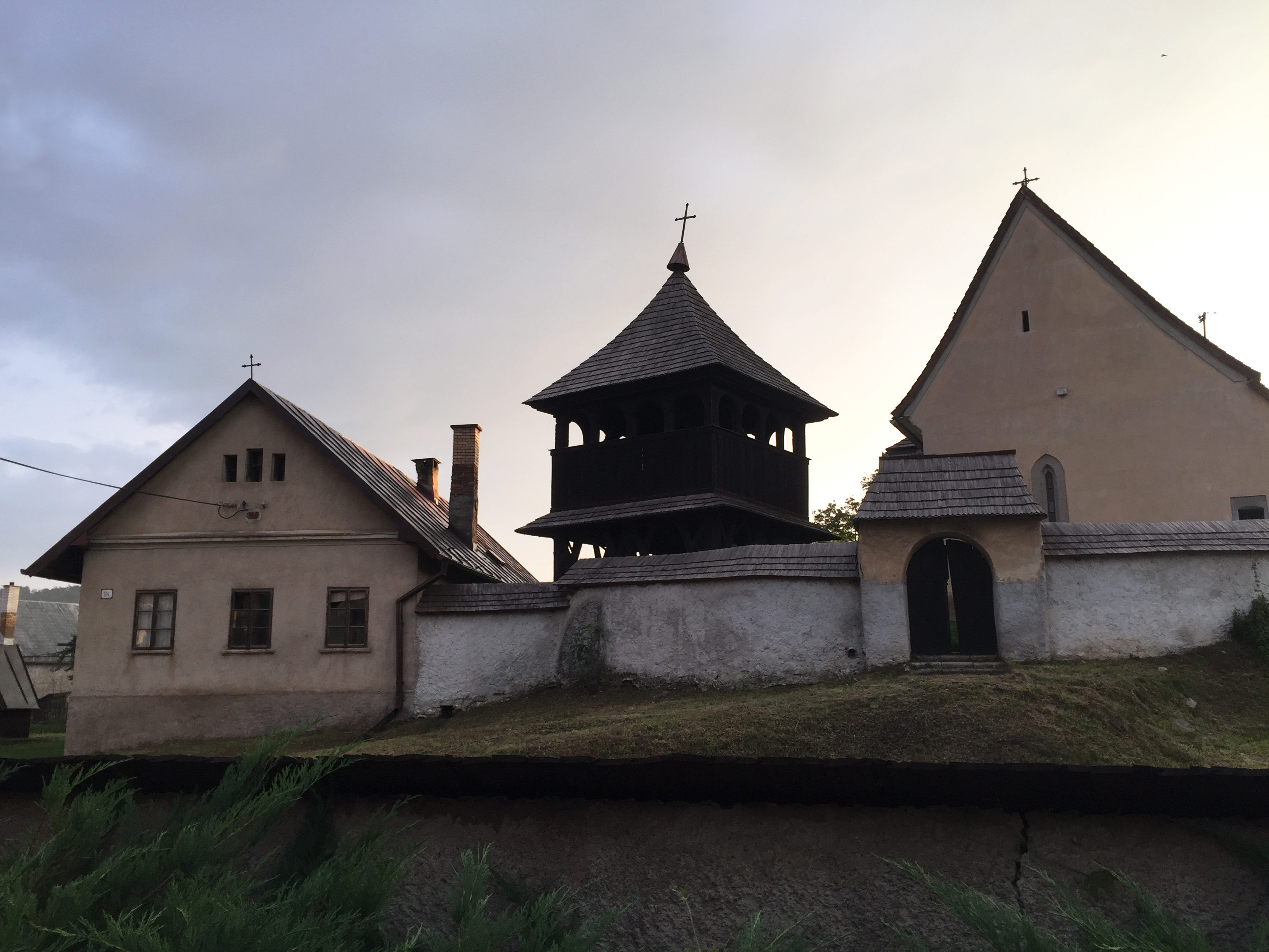 Gothic Annunciation of Our Lady church in Chyžné, Slovakia.